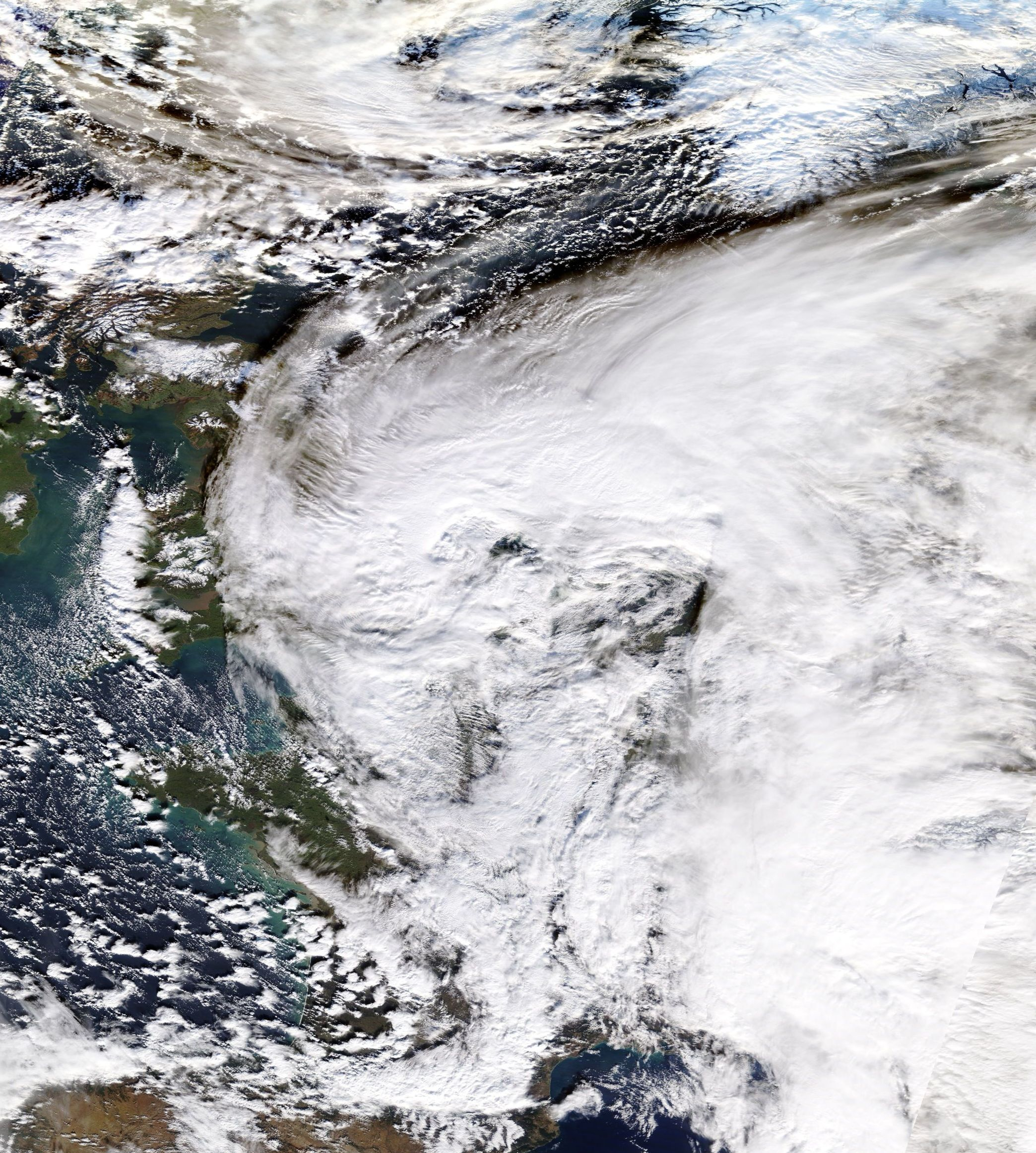 Storm Bruno over the North Sea on December 27, 2017.